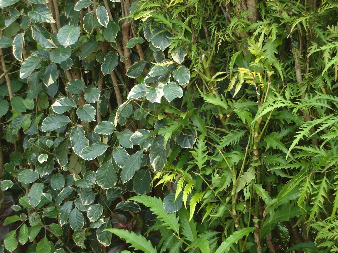 Two types of Polyscias (tanetane) on Tongatapu, shave into a hedge